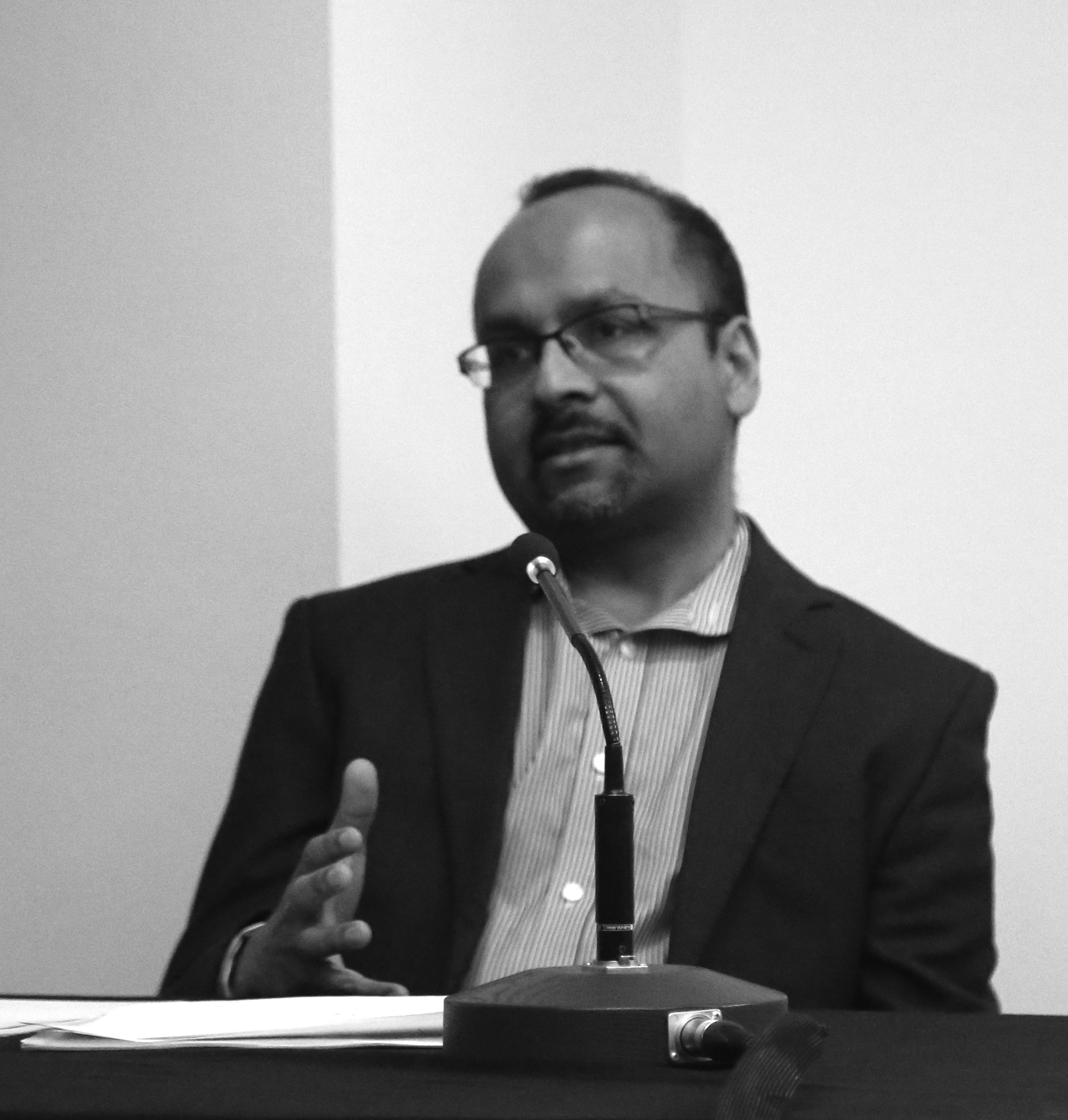 "Opportunities and Challenges: Navigating the new world of data" panel at Allen & Overy in London. Discussing the findings of Data were (left to right) Datum Future advisory board members Hetan Shah; executive director of the Royal Statistical Society; Dr Helen O’Neill, a molecular geneticist and Director for the MSc in Reproductive Science and Women’s Health Programme at the Institute for Women’s Health in University College London; Bojana Bellamy, President of the Centre for Information Policy Leadership; and Anne-Marie Imafidon, founder of the Stemettes. Hosting and moderating the panel (on the right) was Catherine Mayer, executive director of DatumFuture.